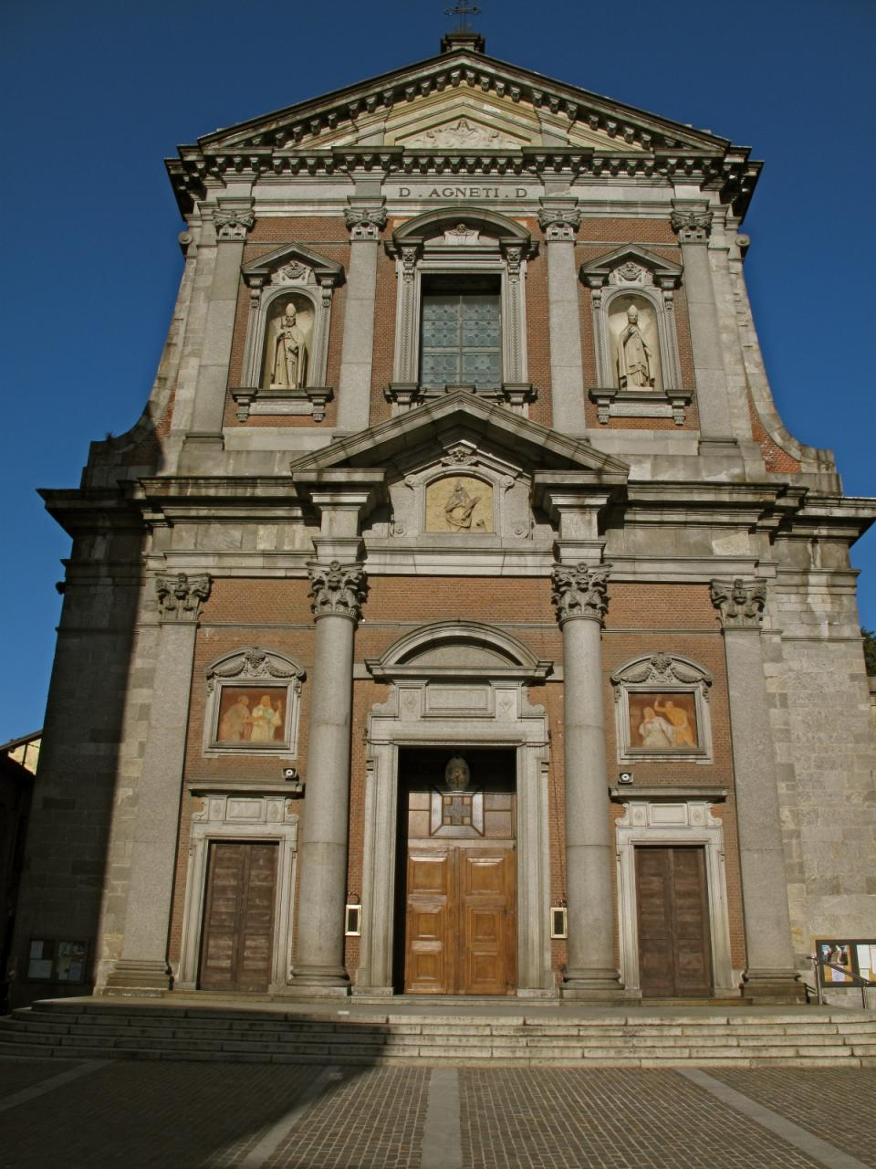 Church in Somma Lombardo